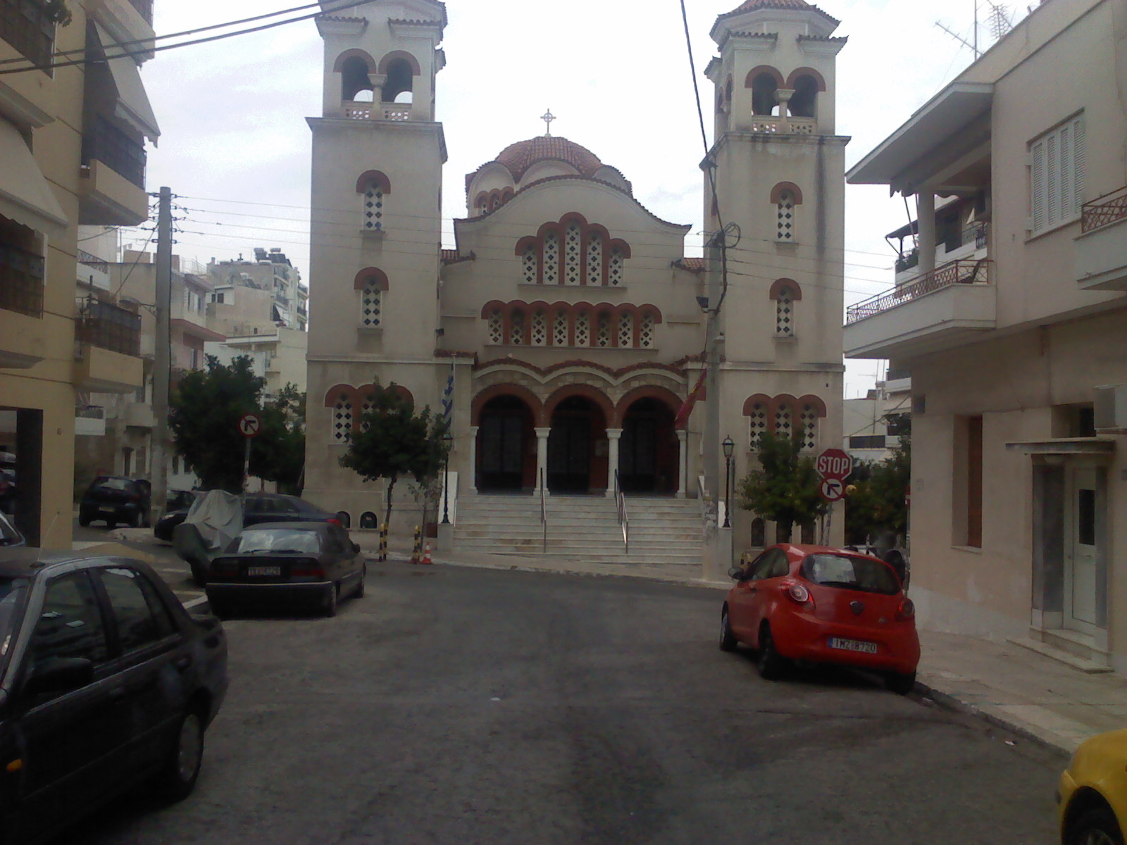 Temple of Panagia Rodon - to Amaranton Pireas